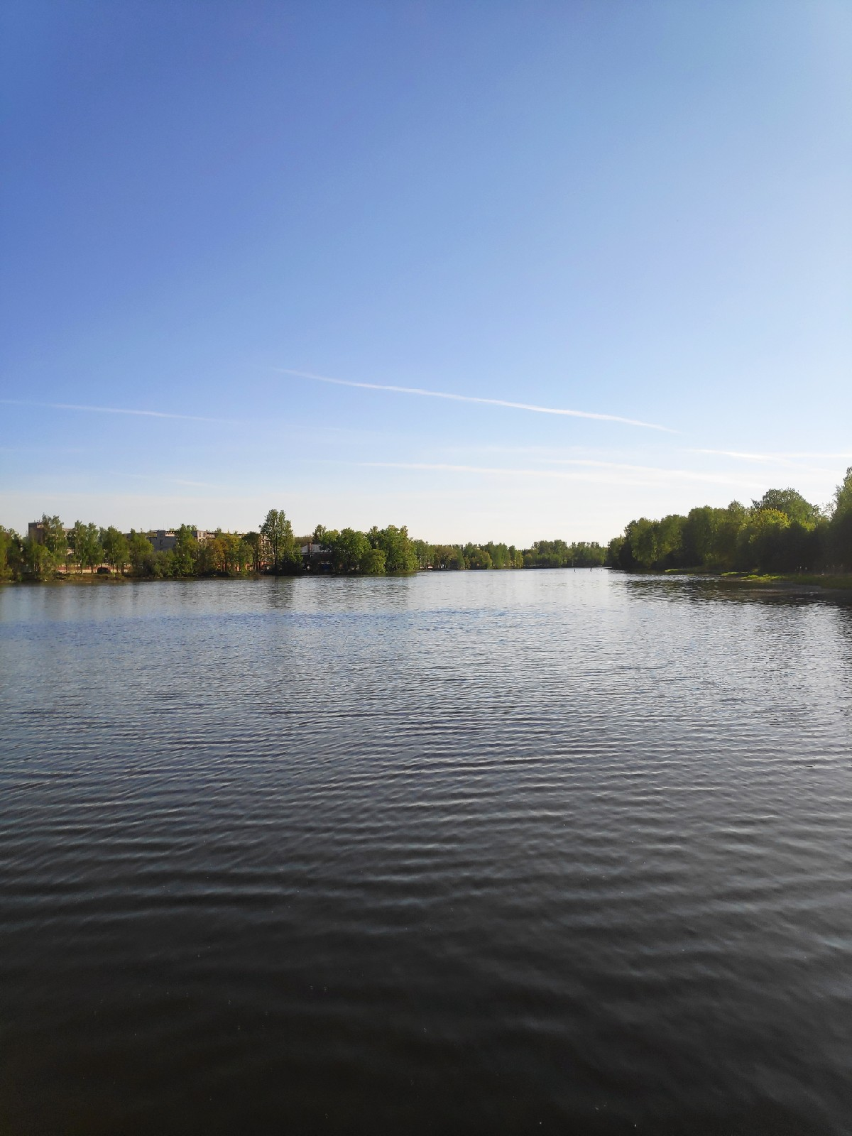 Okhta river (Okhta reservoir)